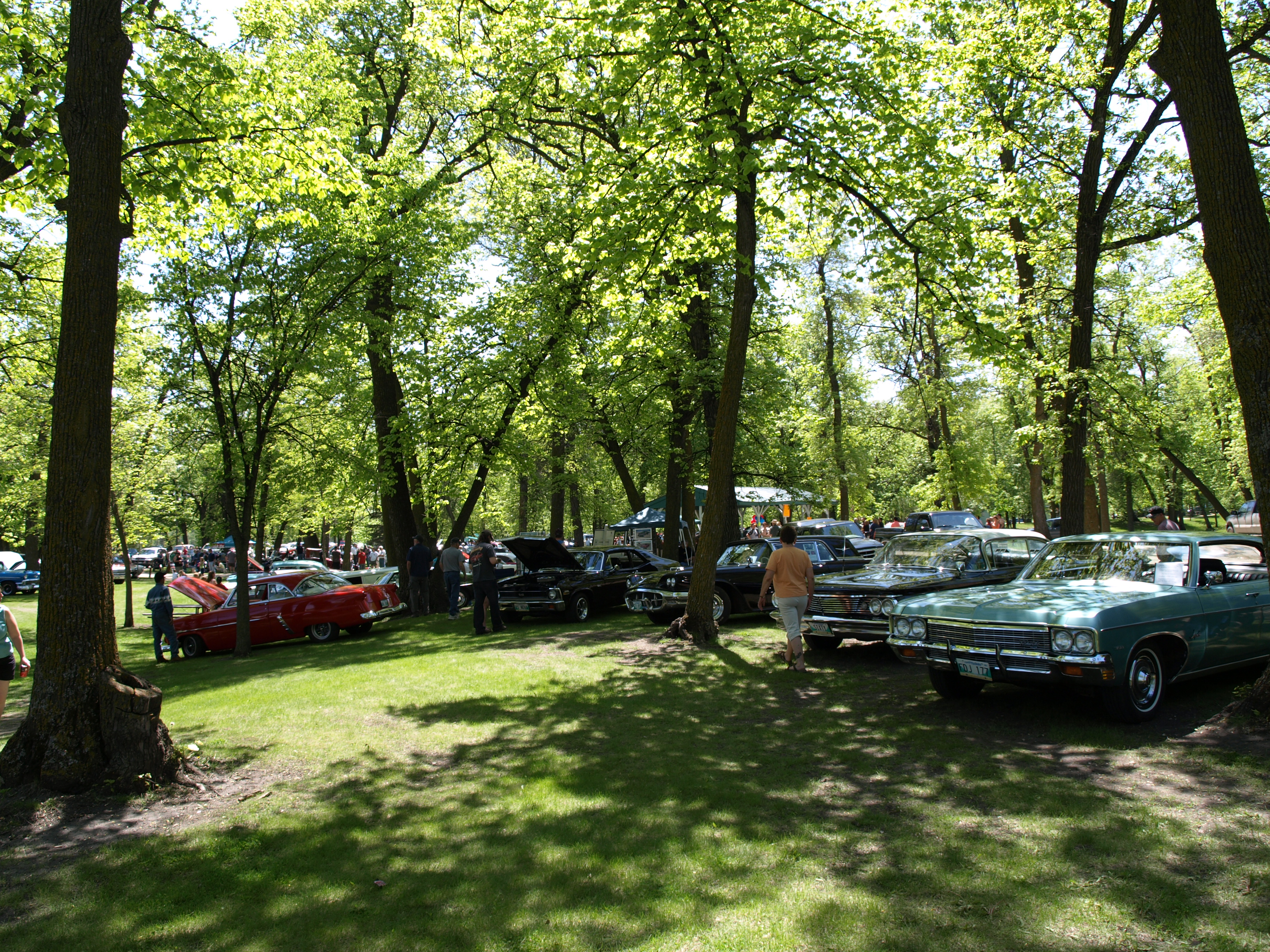 Car Show 2009 Portage La Prairie Manitoba Canada